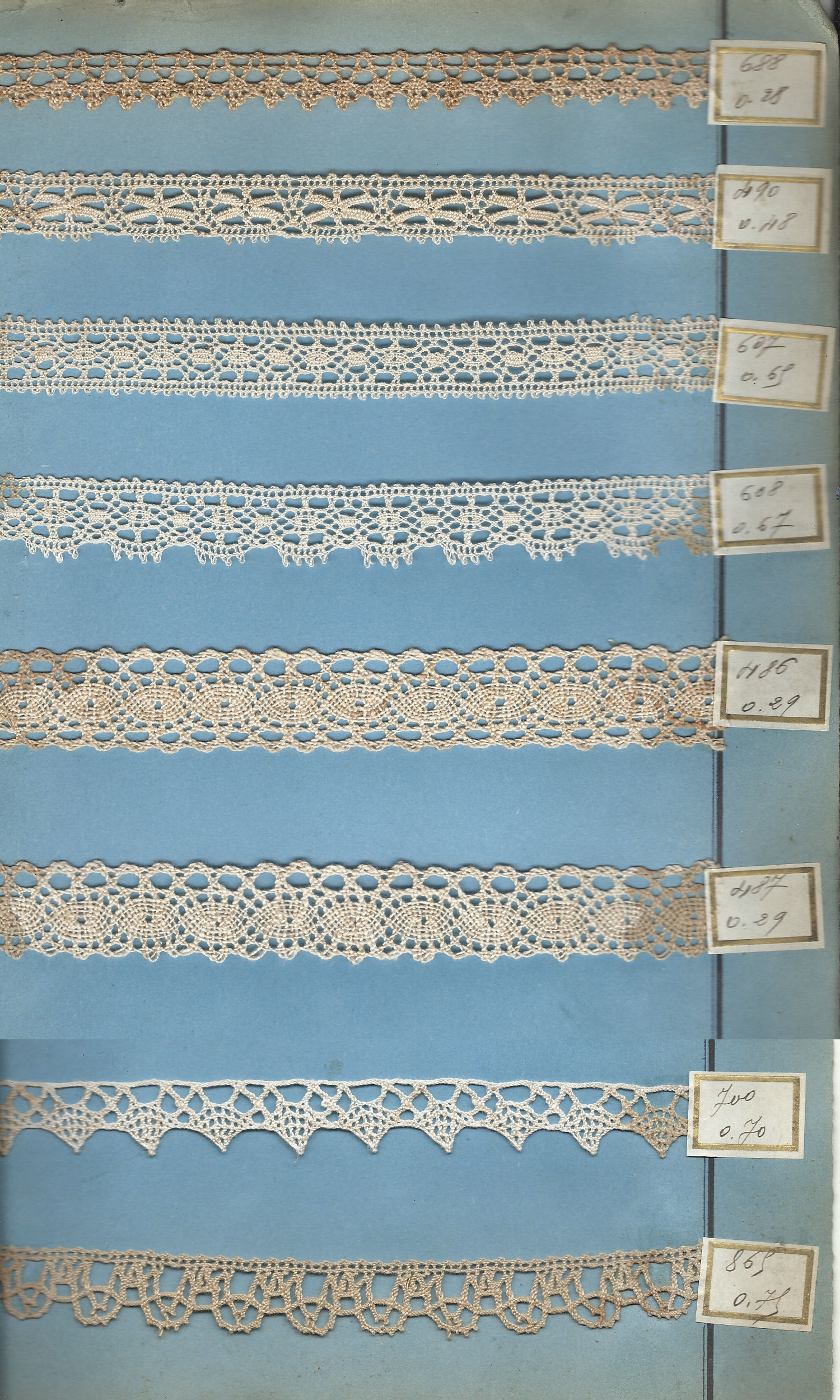 Page from book of lace samples. The lace was made by a Barmen lace machine. The book was bought in Le Puy, France. A note in the book says that the samples date from 1910 to 1930.